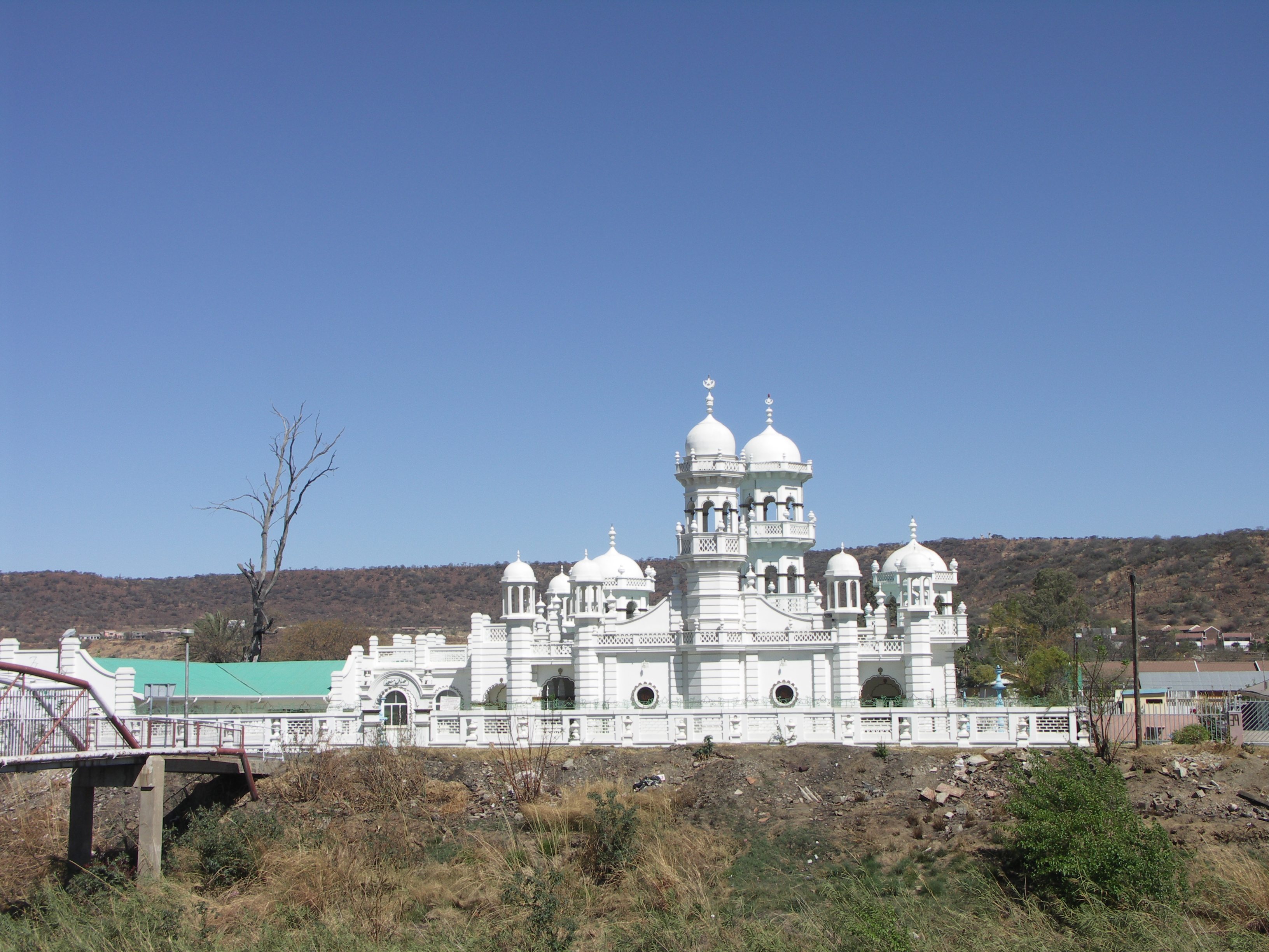 Soofi Mosque in Ladysmith, KwaZulu-Natal, South Africa. This mosque is name Soofi after Hazrath Soofie Saheb